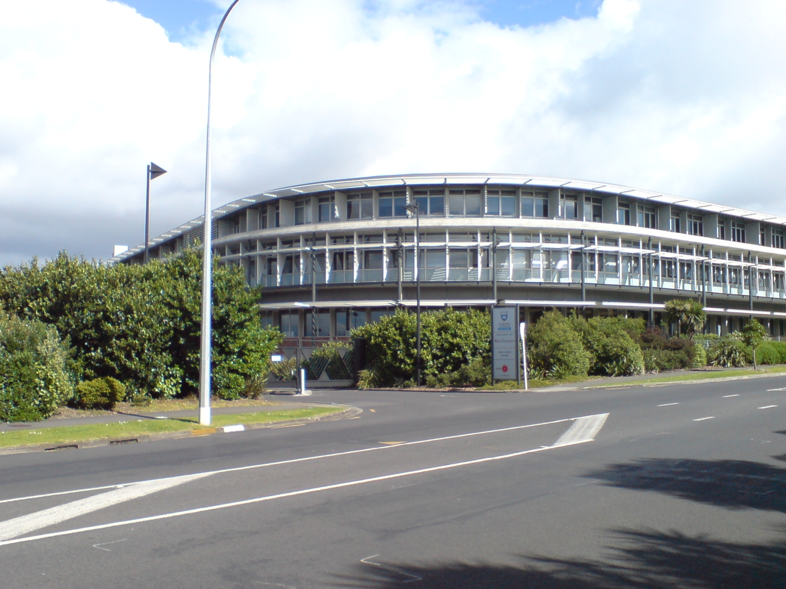 The Tamaki Camus of the University of Auckland in Auckland City, New Zealand.